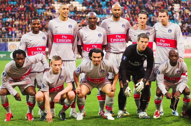 Paris Saint-Germain Football Club 2009